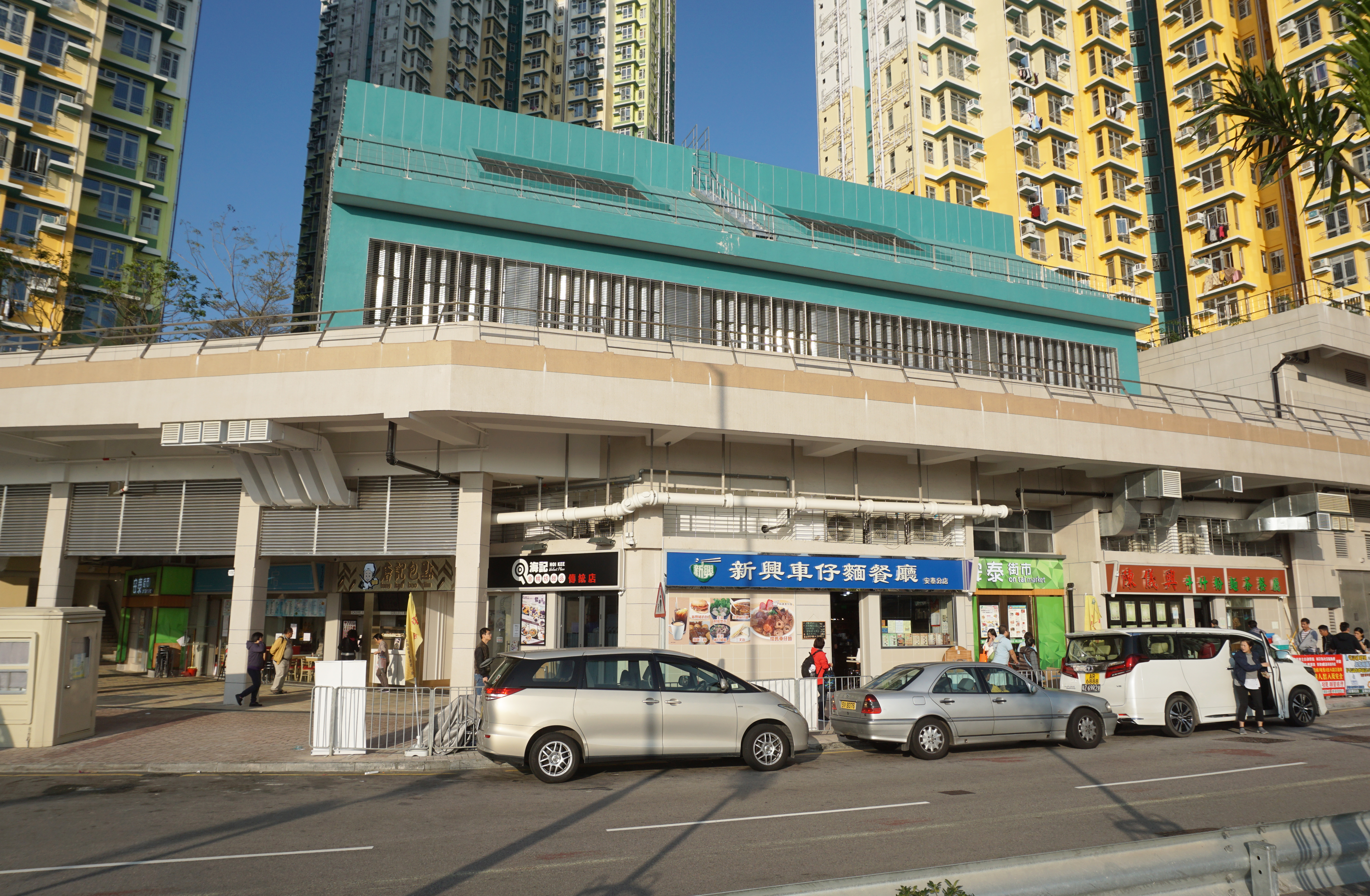 On Tai Shopping Centre in Sau Mau Ping, Hong Kong.